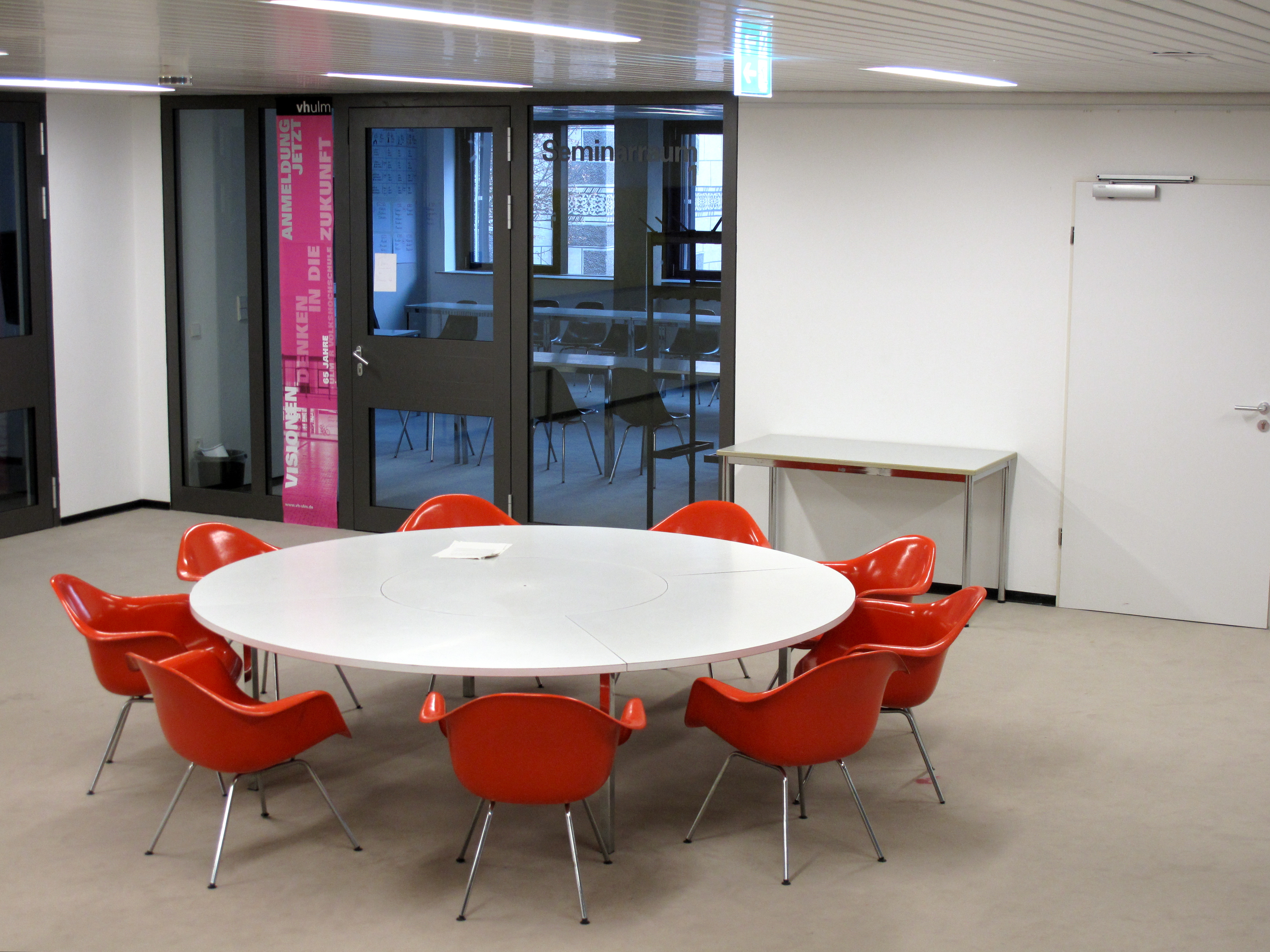 Foyer of the EinsteinHaus (1st floor) of the Ulmer Volkshochschule (vh Ulm) with the orange "Dinging Armchairs" of Charles and Ray Eames.